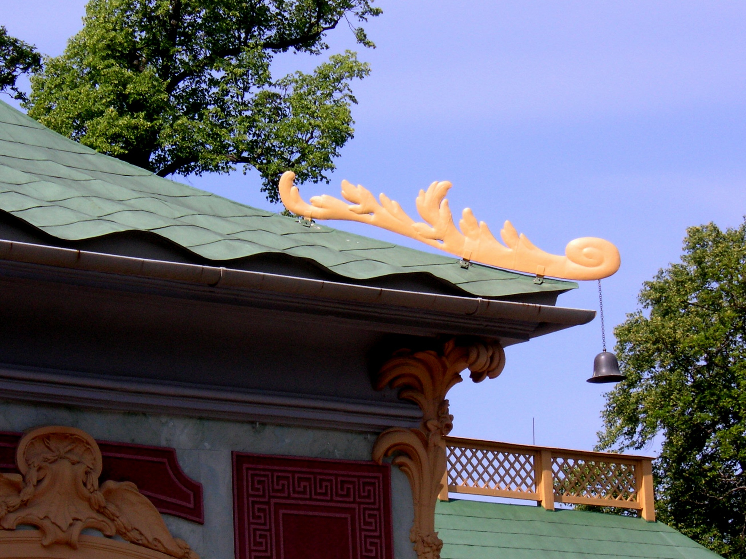 The Chinese Pavilion, Royal Domain of Drottningholm